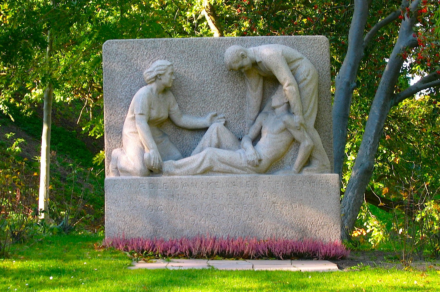 Kolding, the Monument to Danish Resistance, 1940-1945